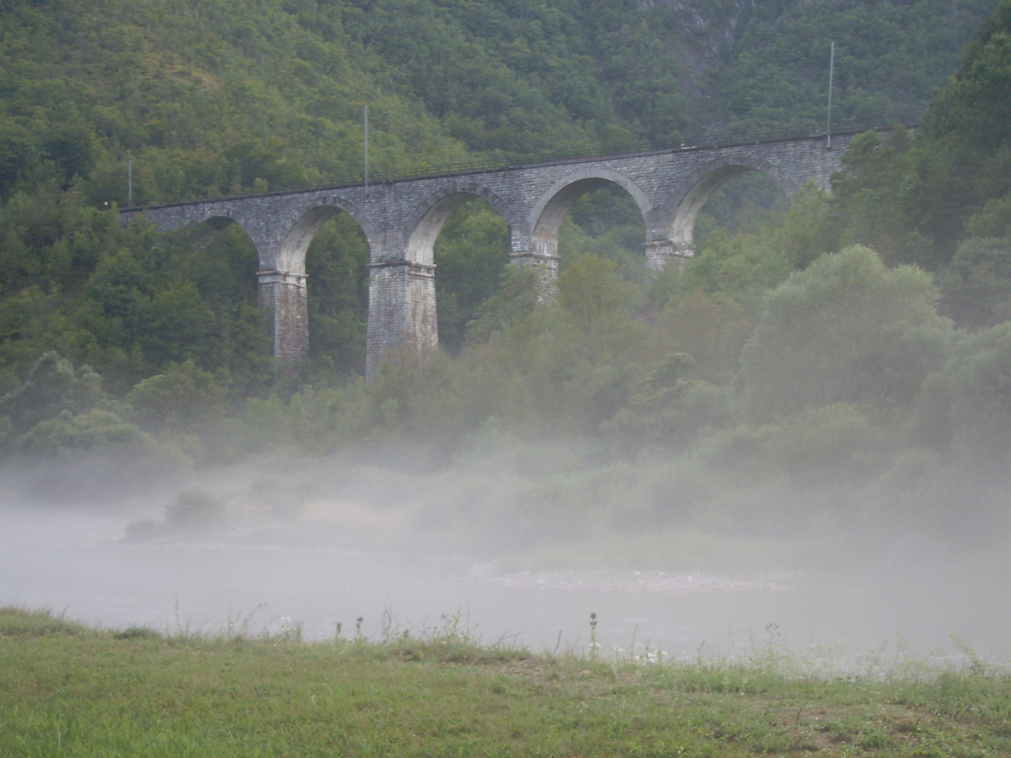 Railway bridge in the Una River valley near Martin Brod, Western Bosnia.